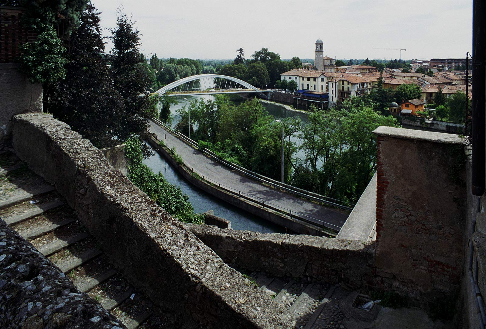 The steps in the foreground are in Vaprio d’Adda; below is the Naviglio Martesana, then the Adda and the bridge across the river to Canonica d’Adda. The campanile there is of the church pictured in Image:Canonica d'Adda.JPG